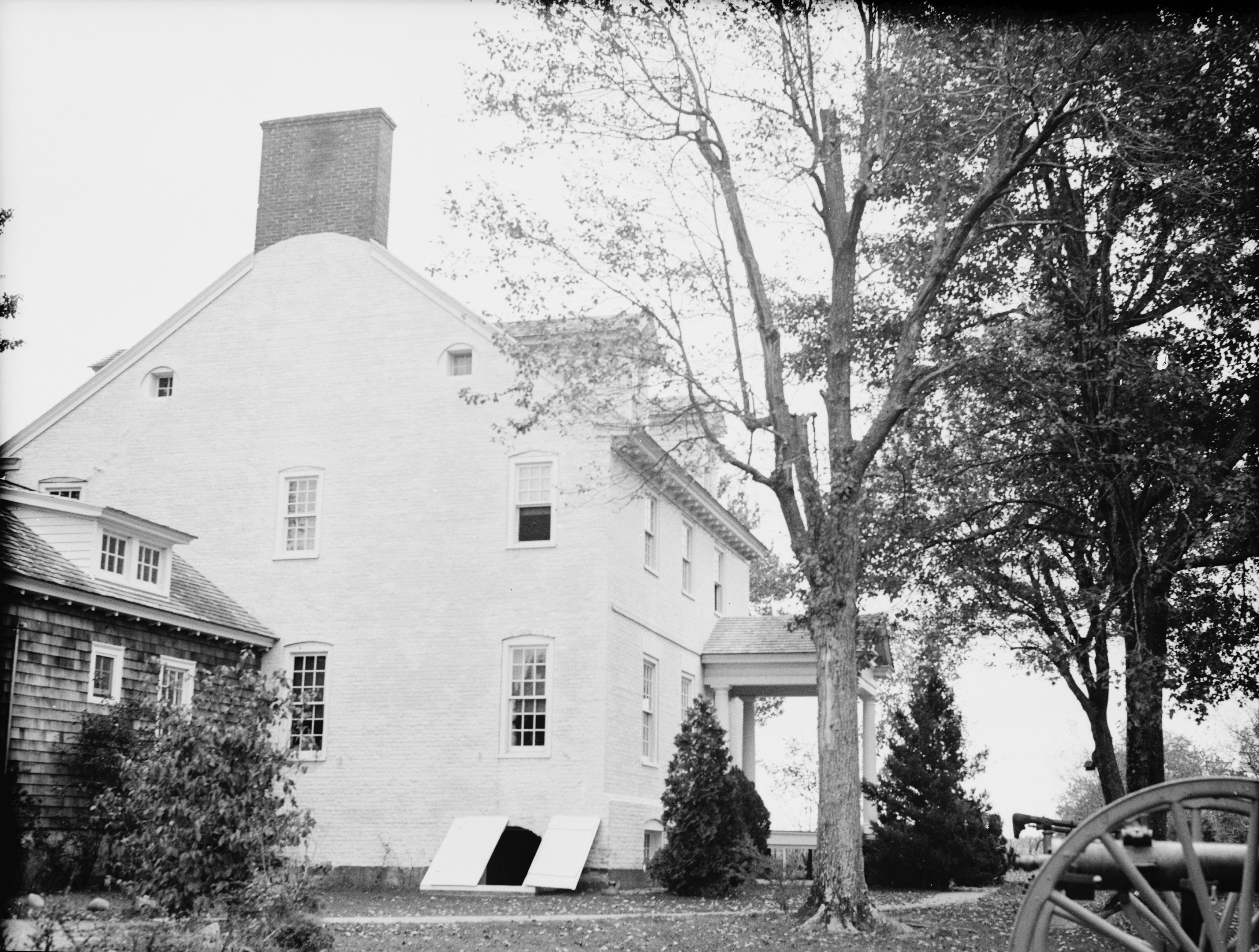 Historic American Buildings Survey H. C. Forman, Photographer, 1933. GENERAL VIEW FROM WEST - Rehoboth, Punkum Road, Eldorado, Dorchester County, MD